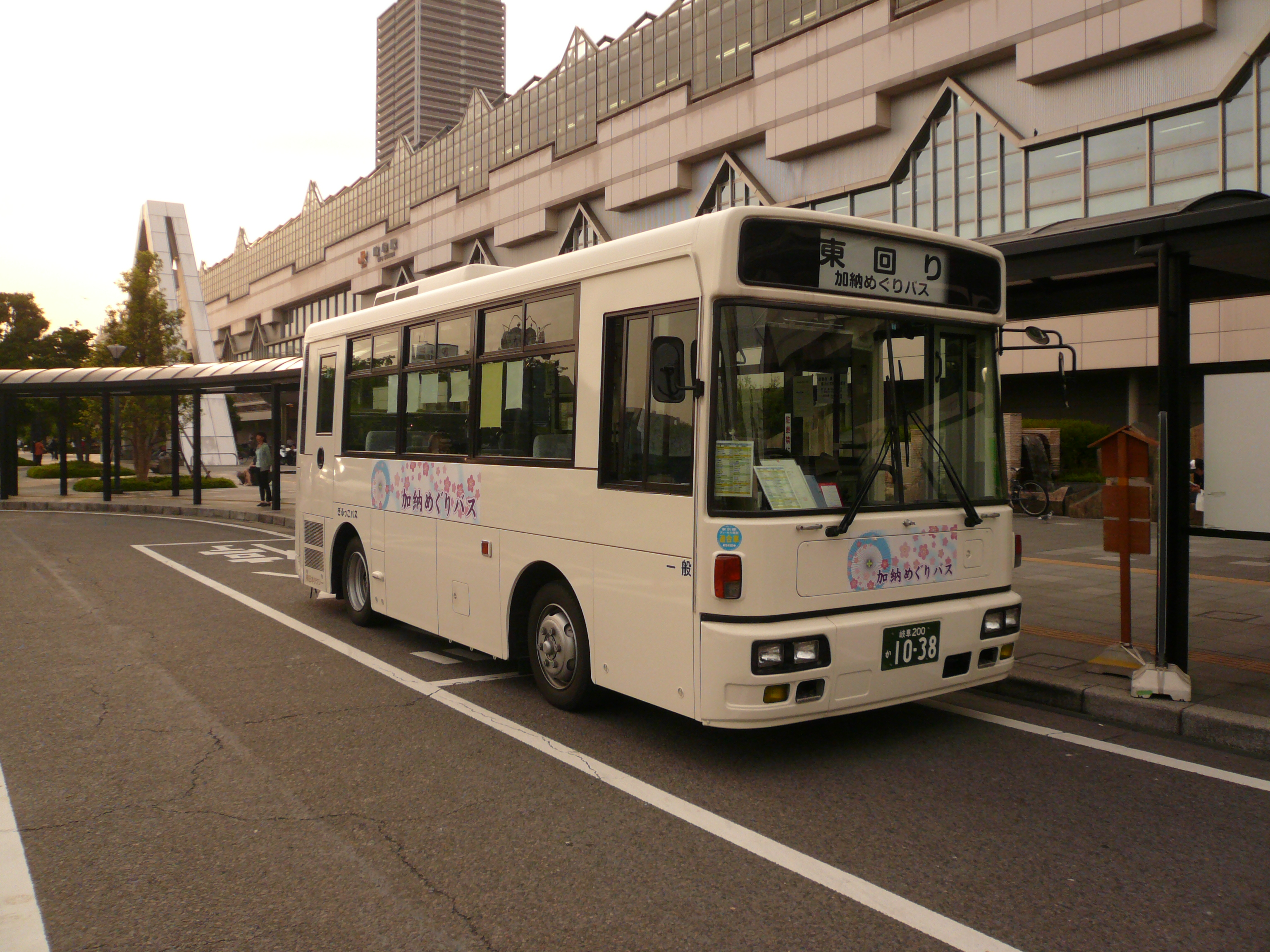 Kano Meguri Bus JR-Gifu-eki-minamiguchi (JR Gifu Station south) Bus Stop in Gifu City, Gifu Prefecture, Japan